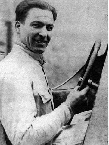 Ernesto Maserati at Targa Florio on 24 April 1927, he drove a Maserati Tipo 26, but did not finish.[1]